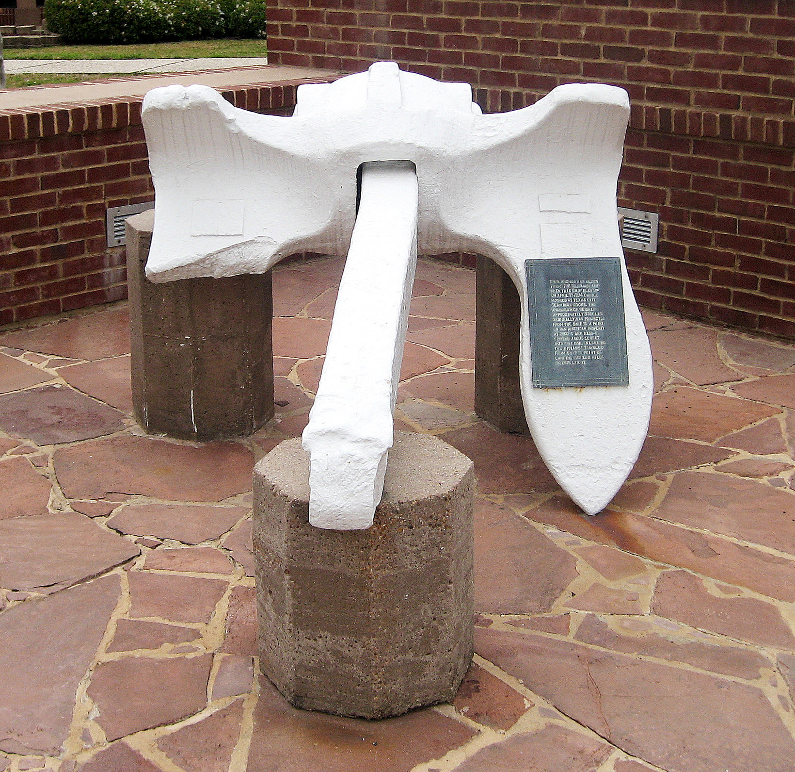 The Texas city disaster was the worst industrial accident in American history. This 2 ton anchor of from the explosion of the ship Grandcamp was hurled 1.6+ miles creating a 10' crater